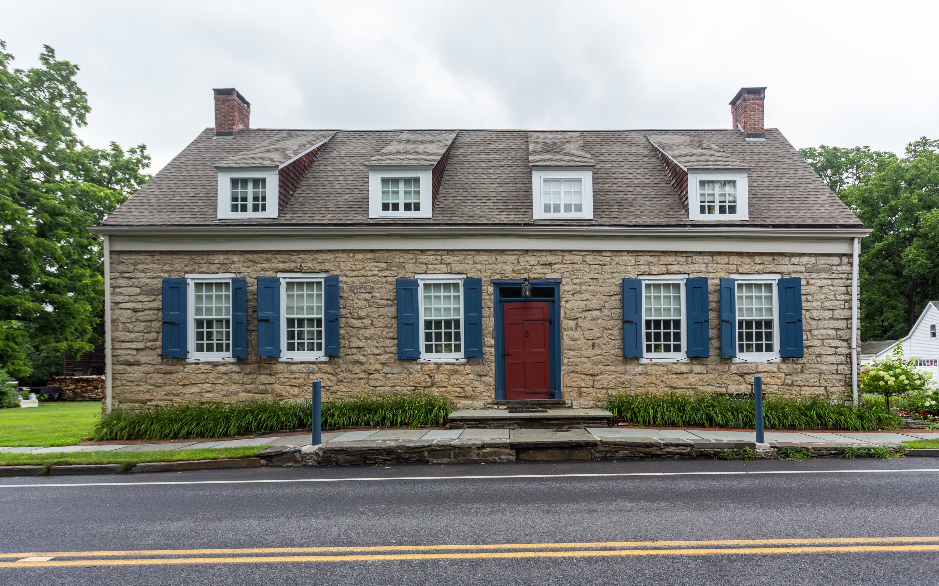 Van Deusen House, Hurley, New York